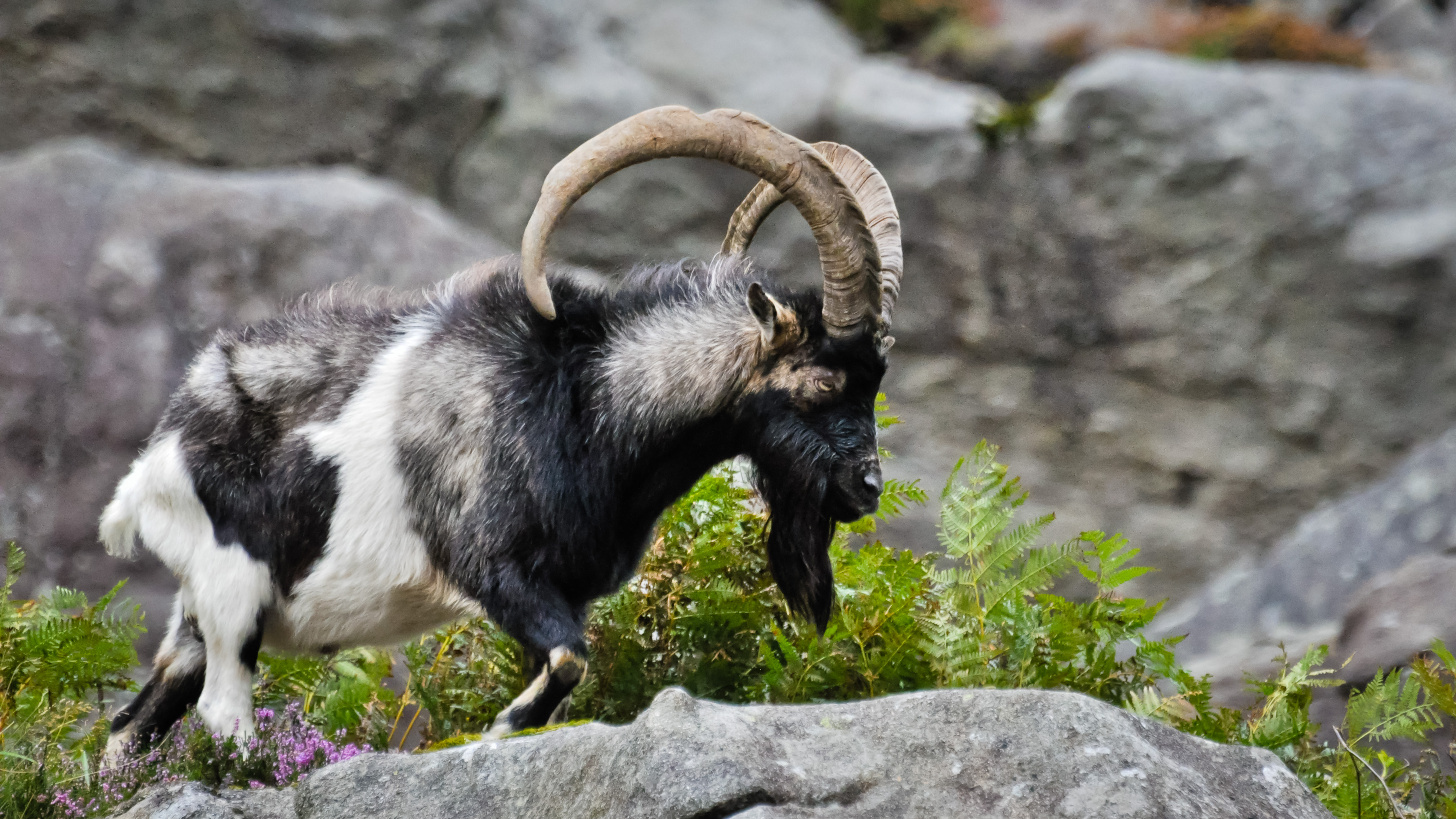 A feral goat in the Glenealo Valley, Glendalough, County Wicklow, Ireland